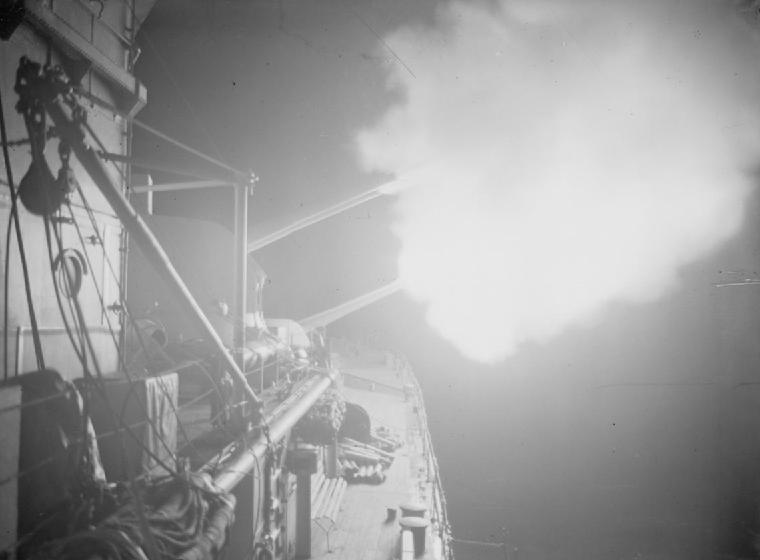 Flashes from the 6 inch guns of the Leander class cruiser HMS ORION can be seen against the darkness during a nightime bombardment of enemy positions on the Garigliano River.